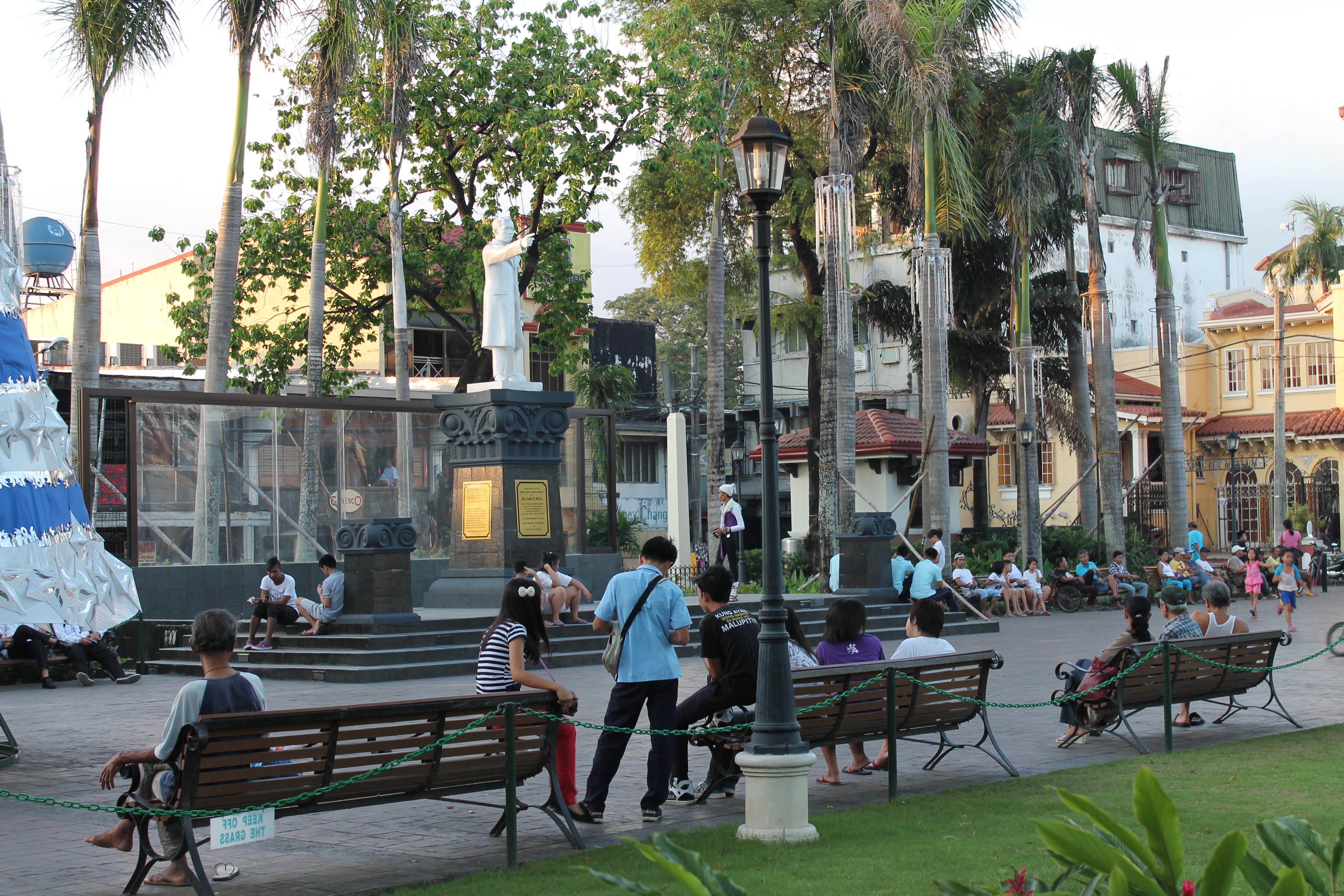 Plaza Rizal, Pasig City